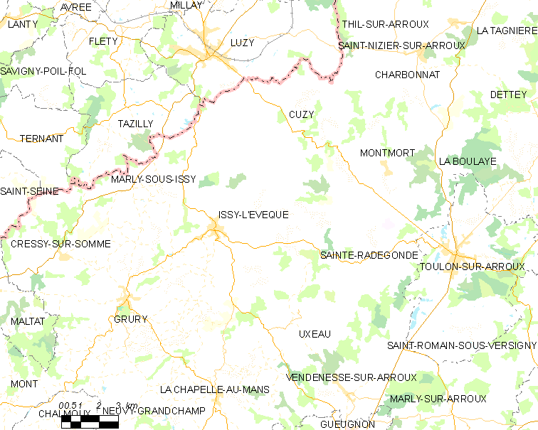 Map of French municipality